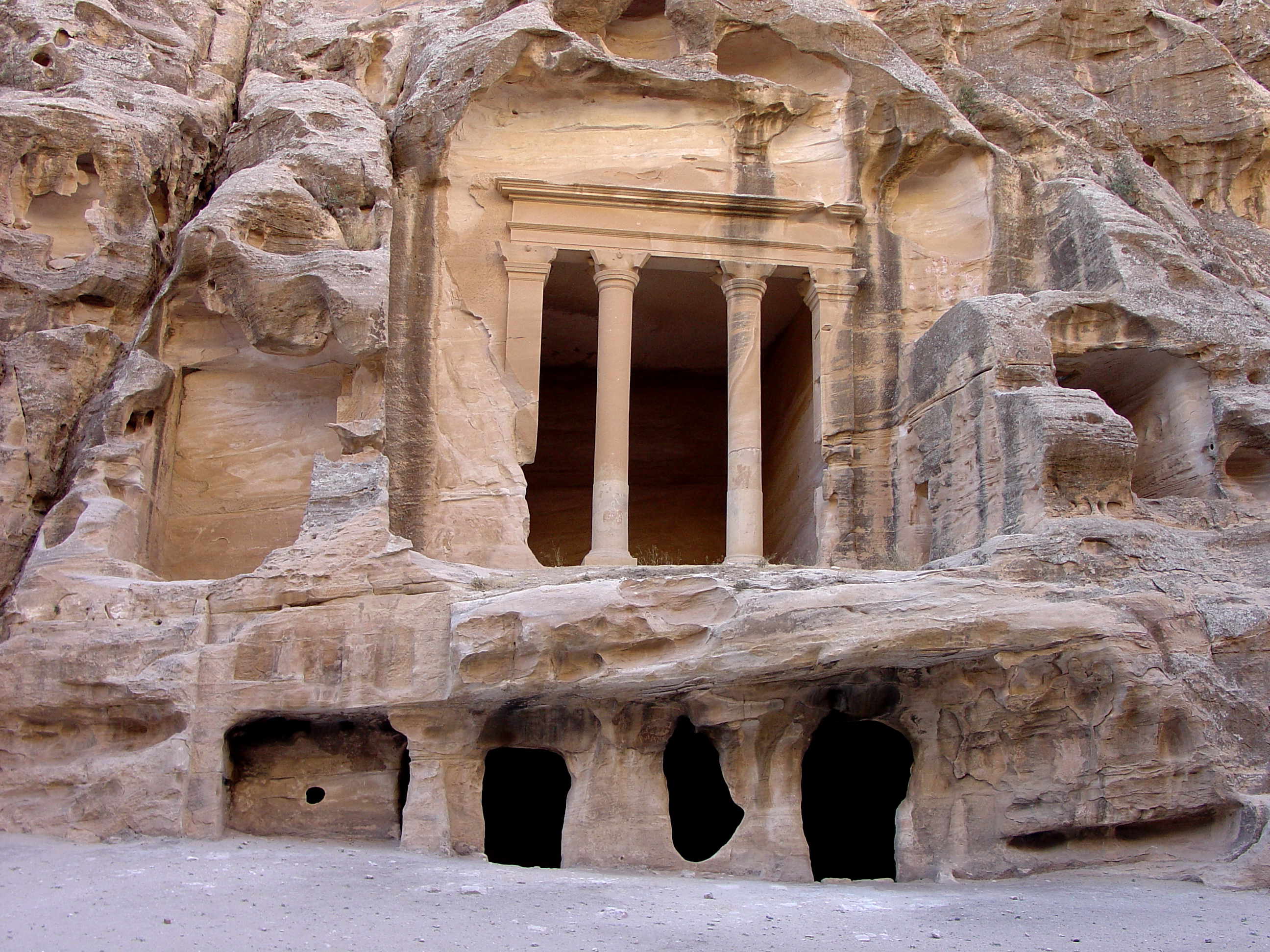 The chamber is fronted by two standing columns in antis. There isn't any decoration or carving inside. Below the chamber is a cave-house with three rooms. One room has recessed shelves in the walls. Possibly the columned chamber was the chapel for a memorial cult, and the house below was occupied by whoever was in charge of the rites.